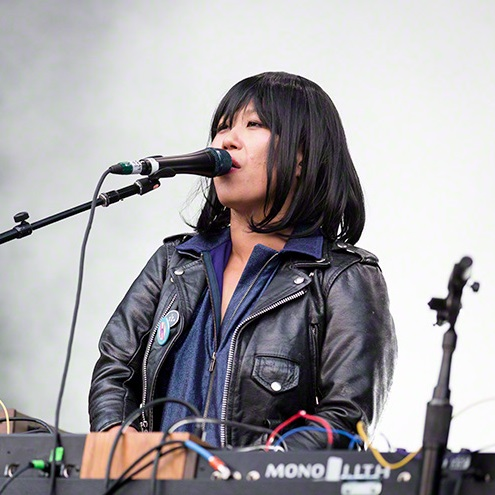 Nancy Whang performing as part of LCD Soundsystem in 2016.